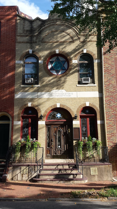 The Vilna Congregation, 509 Pine Street, Society Hill, Philadelphia, Pennsylvania, 19147 on September 25, 2015. Photo by Morris Levin.